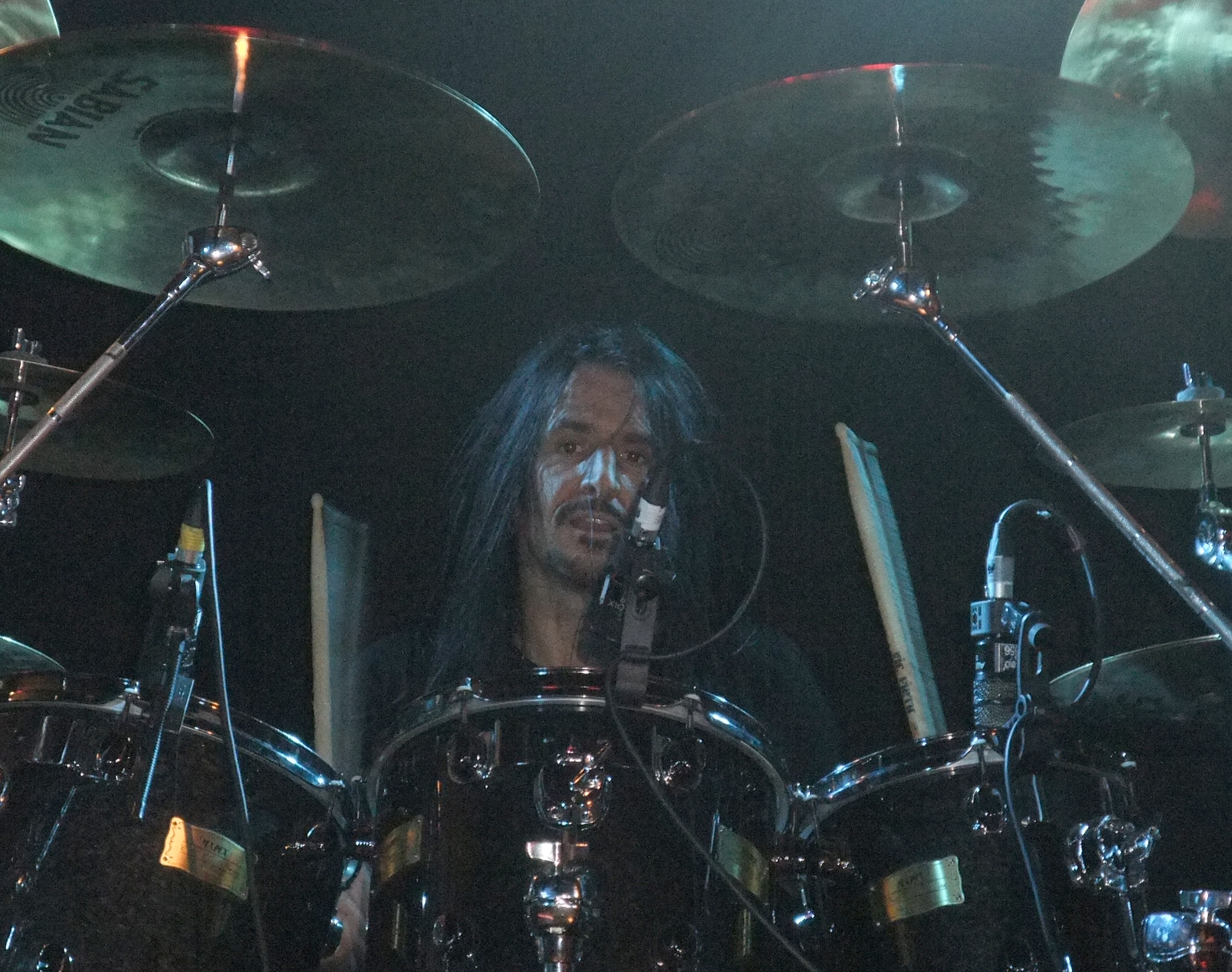 Randy Black performing live with Primal Fear at The Garage in London, 25th September 2009